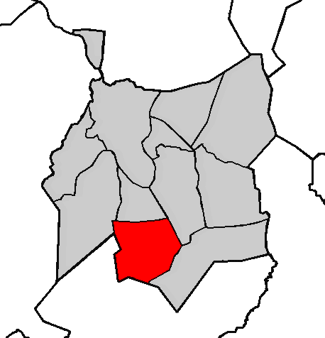 Location of the parish of Andeiro in the municipality of Cambre (Galicia, Spain)